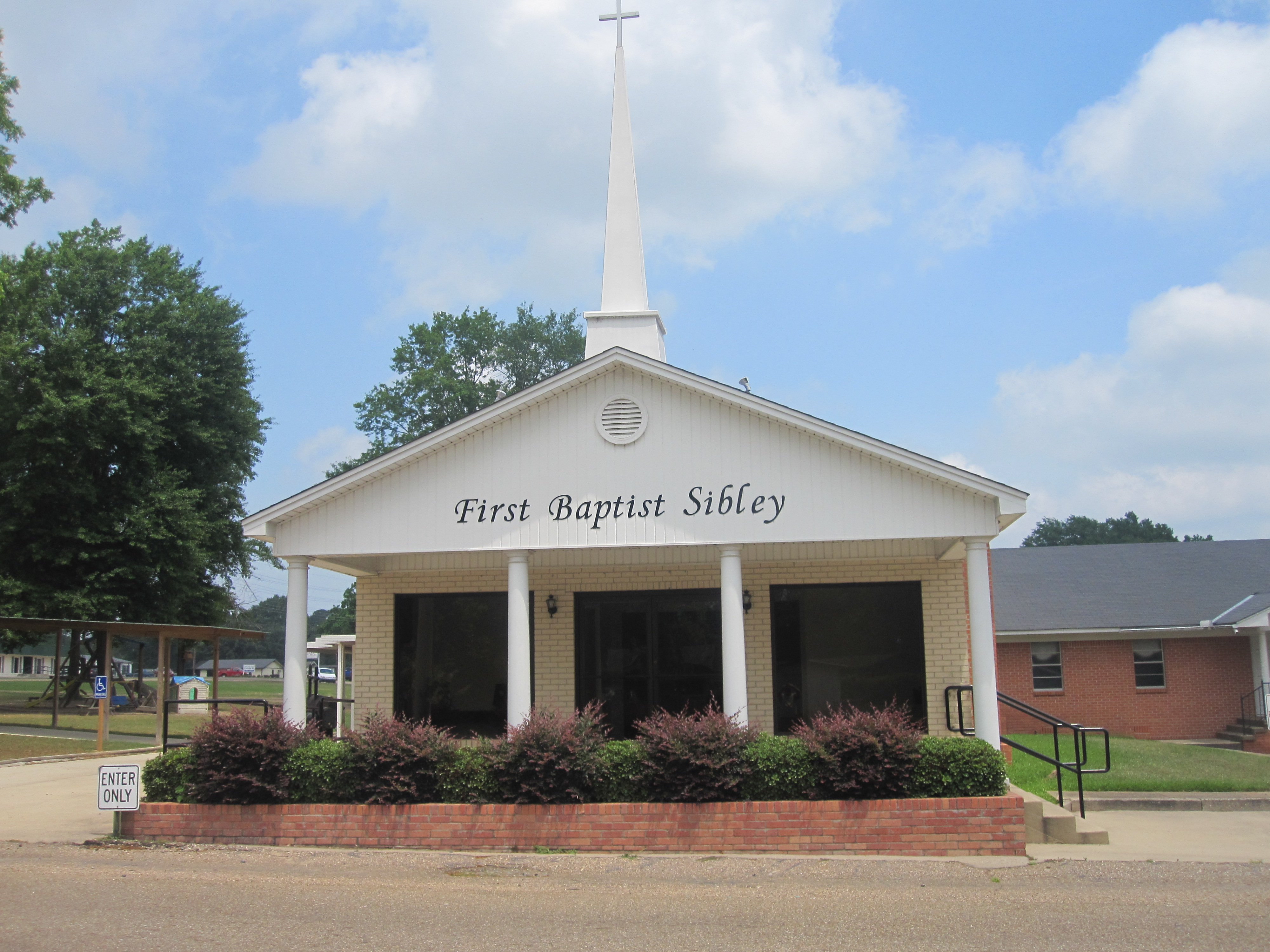 I took photo on May 19, 2010, with Canon camera in Sibley, LA.